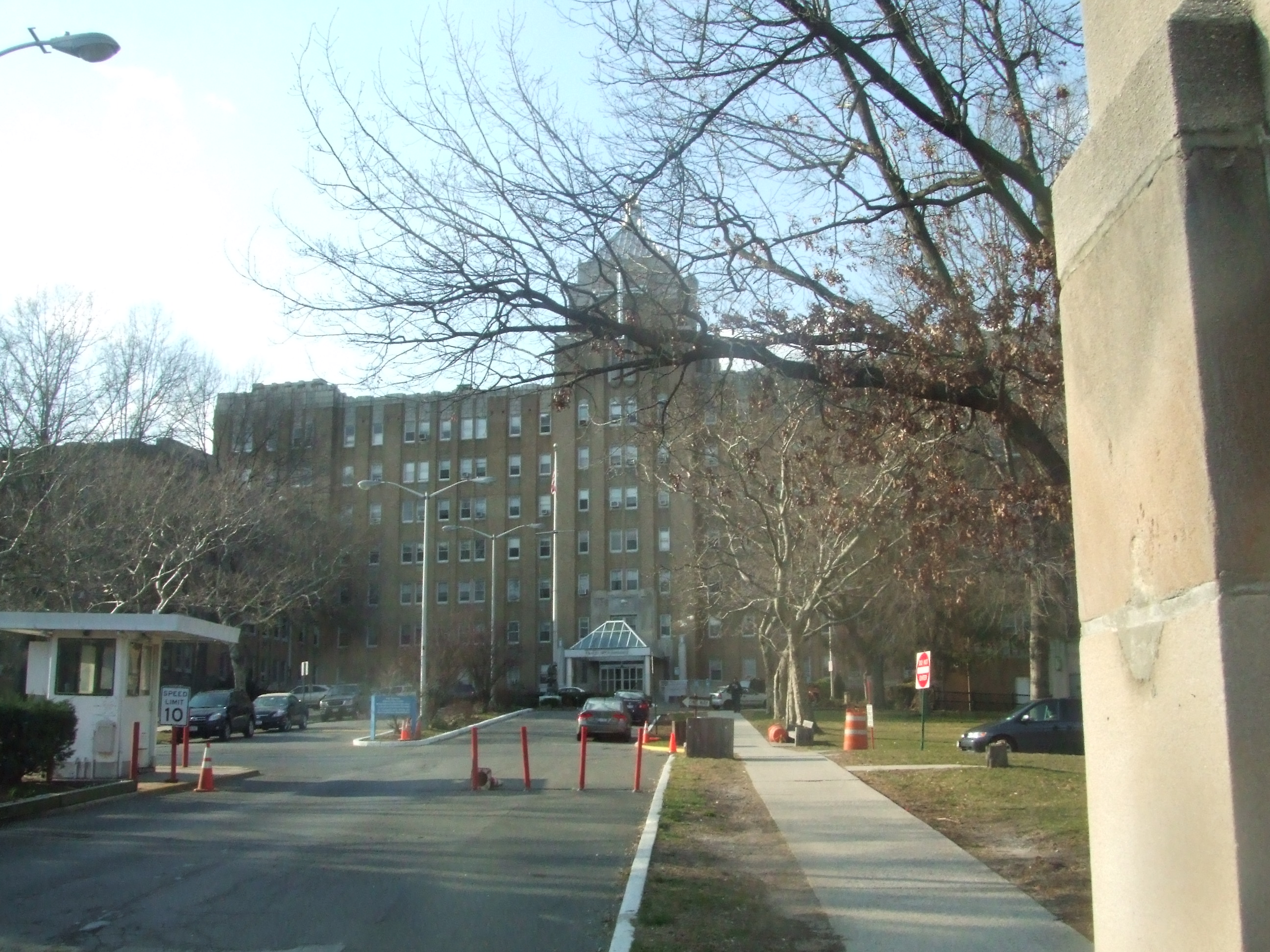 Bayley Seaton Hospital, seen from Vanderbilt Avenue, Staten Island, New York